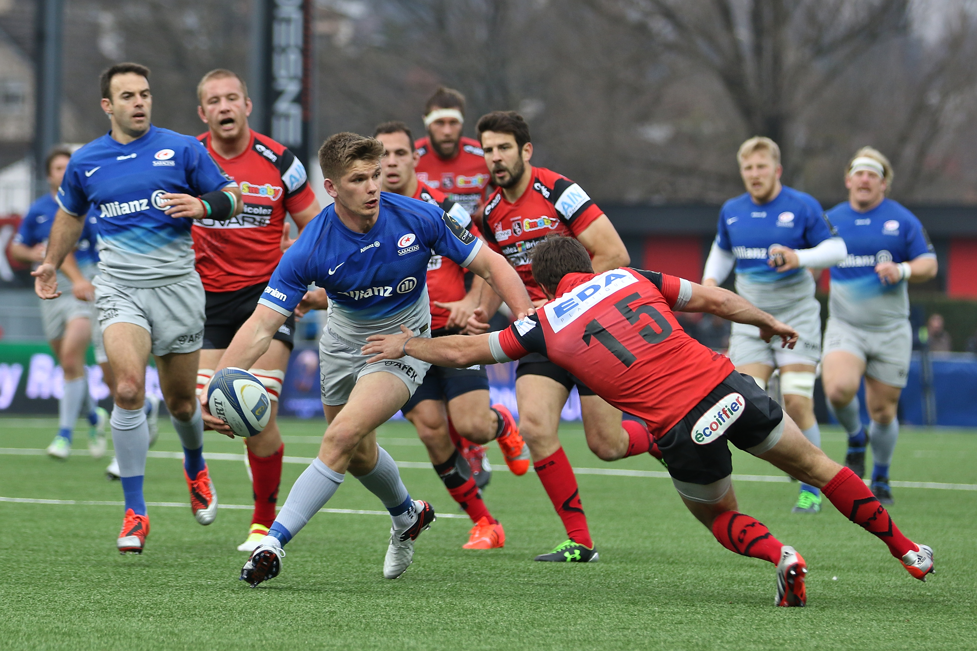 USO - Saracens - 20151213 - Owen Farrell passes the ball before the tackle by Quentin Etienne Lecoq